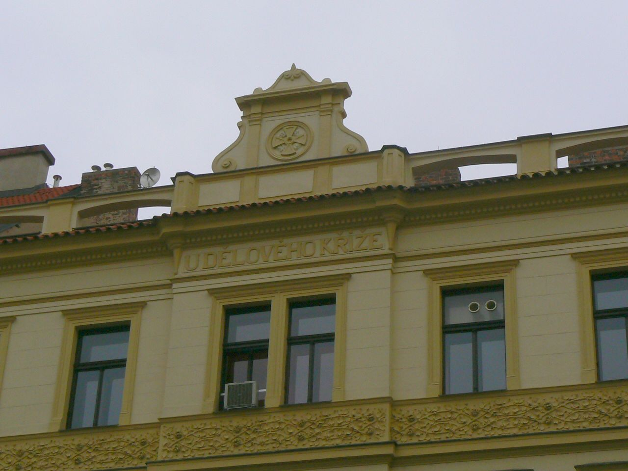 Cannon Cross House (Štefánikova 75/48, Prague-Smíchov)